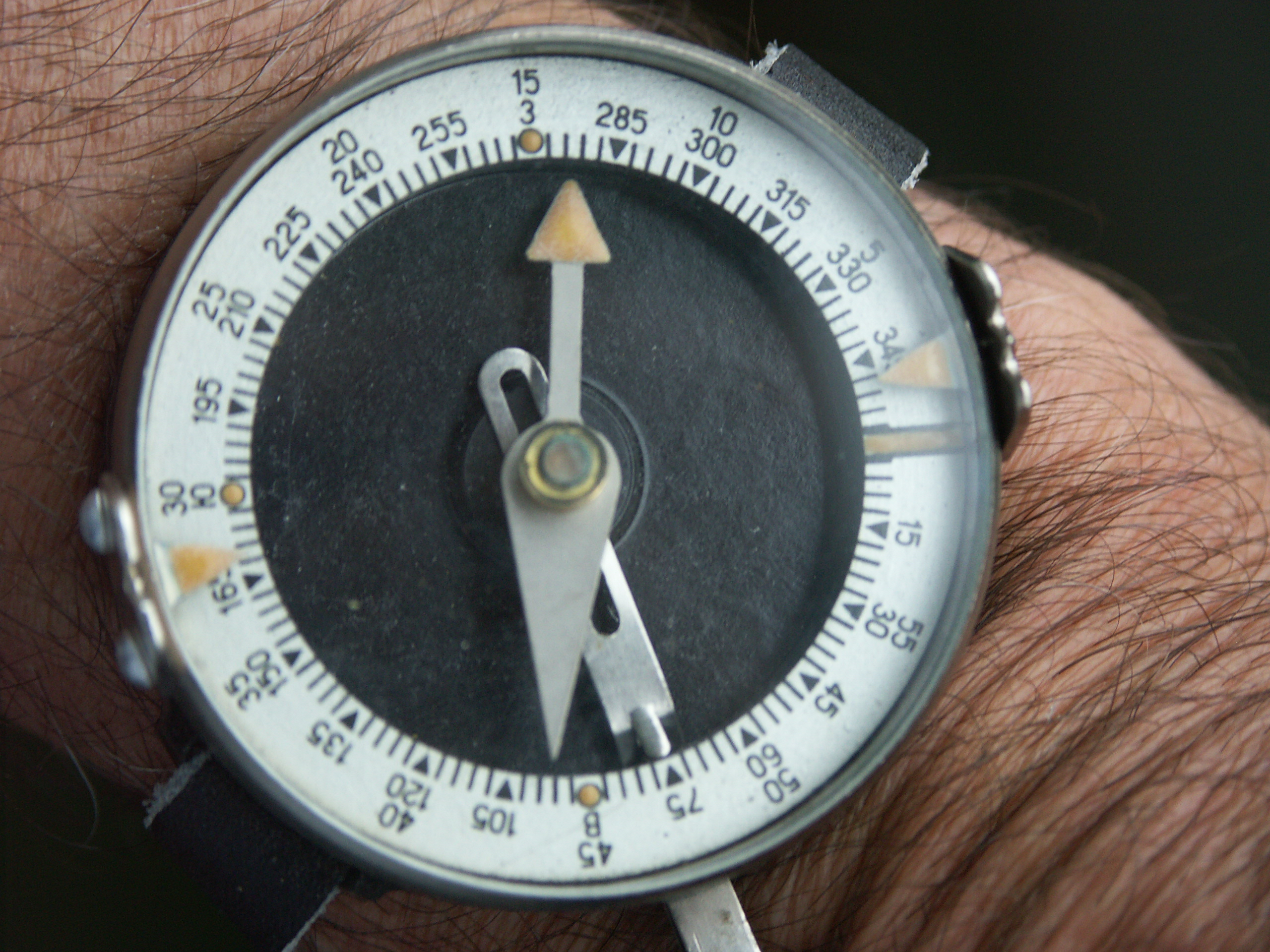 Soviet Army wrist compass with two (opposite) scales, 360 degrees clockwise and 6000 Soviet mil counterclockwise. The Cyrillic letters under the 15, 30 and 45 degree marks represents the cardinal directions.